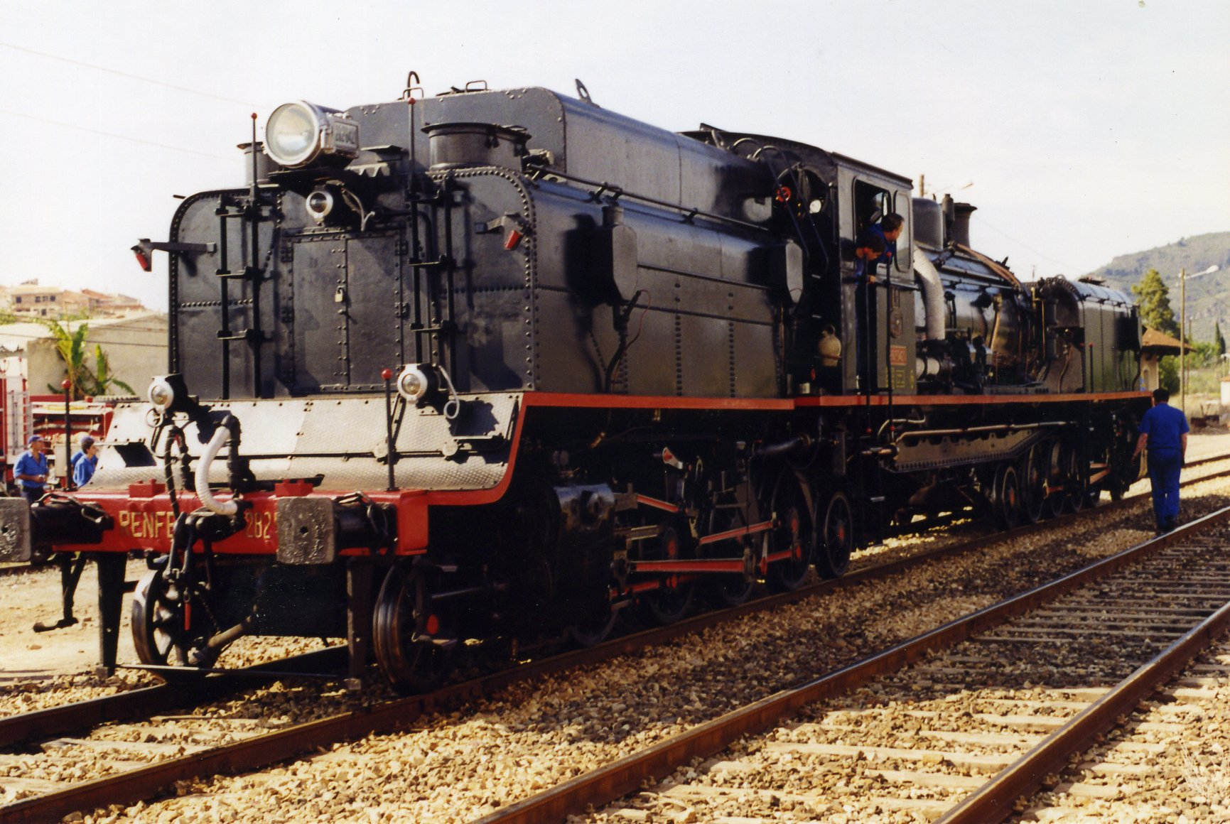 RENFE Garratt 282F0241, built 1960 by Babcock & Wilcox, Bilbao, Spain. Taken at the celebration of the centenary of the Alto Palancia Railways, May 23, 1998.